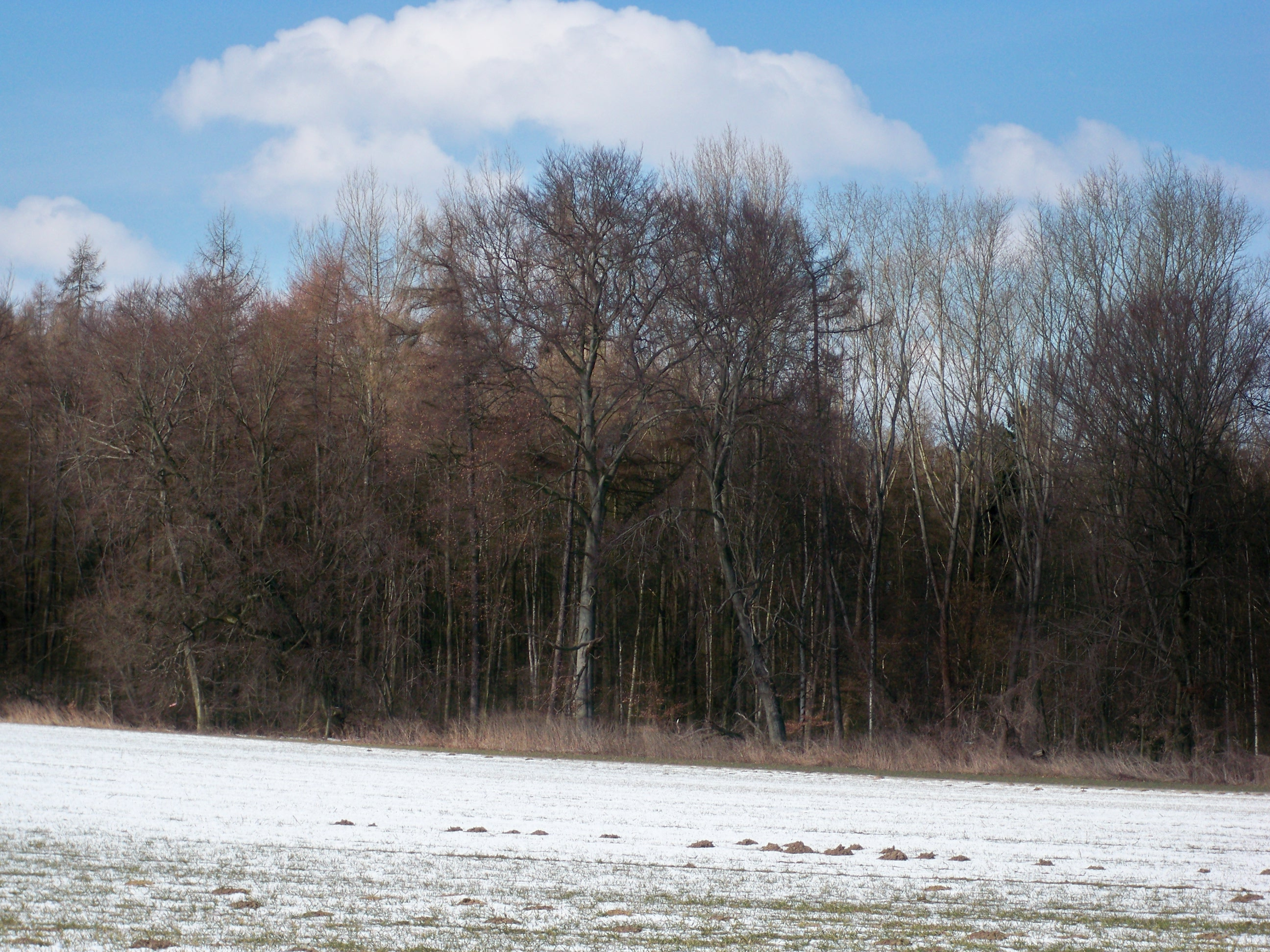 Beetzendorfer Bruchwald und Tangelnscher Bach, nature reserve, eastern border near Tangeln, Saxony-Anhalt